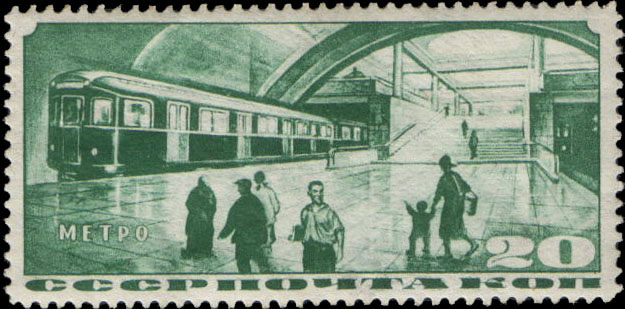 Stamp of the Soviet Union, Biblioteka Imeni Lenina (Moscow Metro station), 1935, CPA #499.